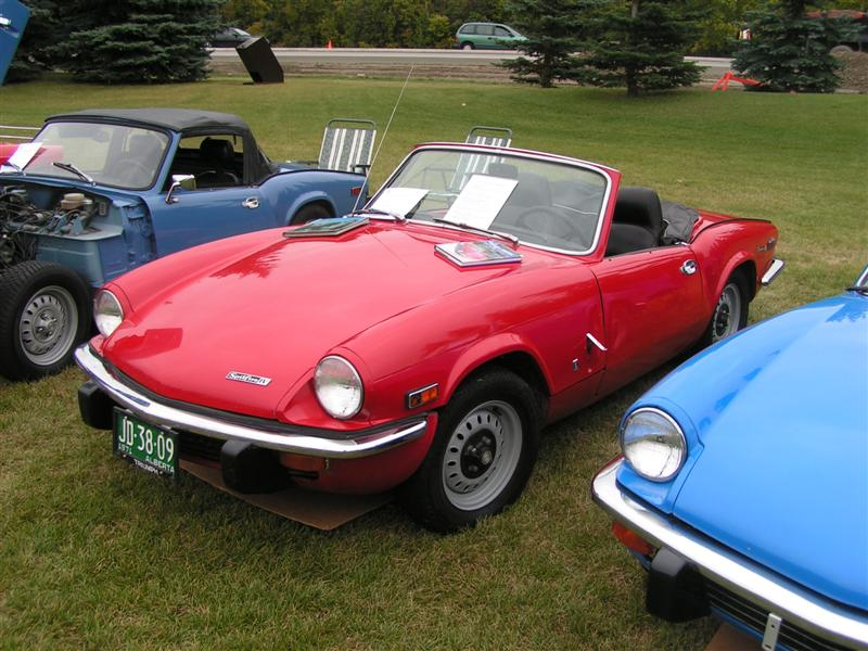 Triumph Spitfire Mk IV spotted at VSCCC European Classic Car Show